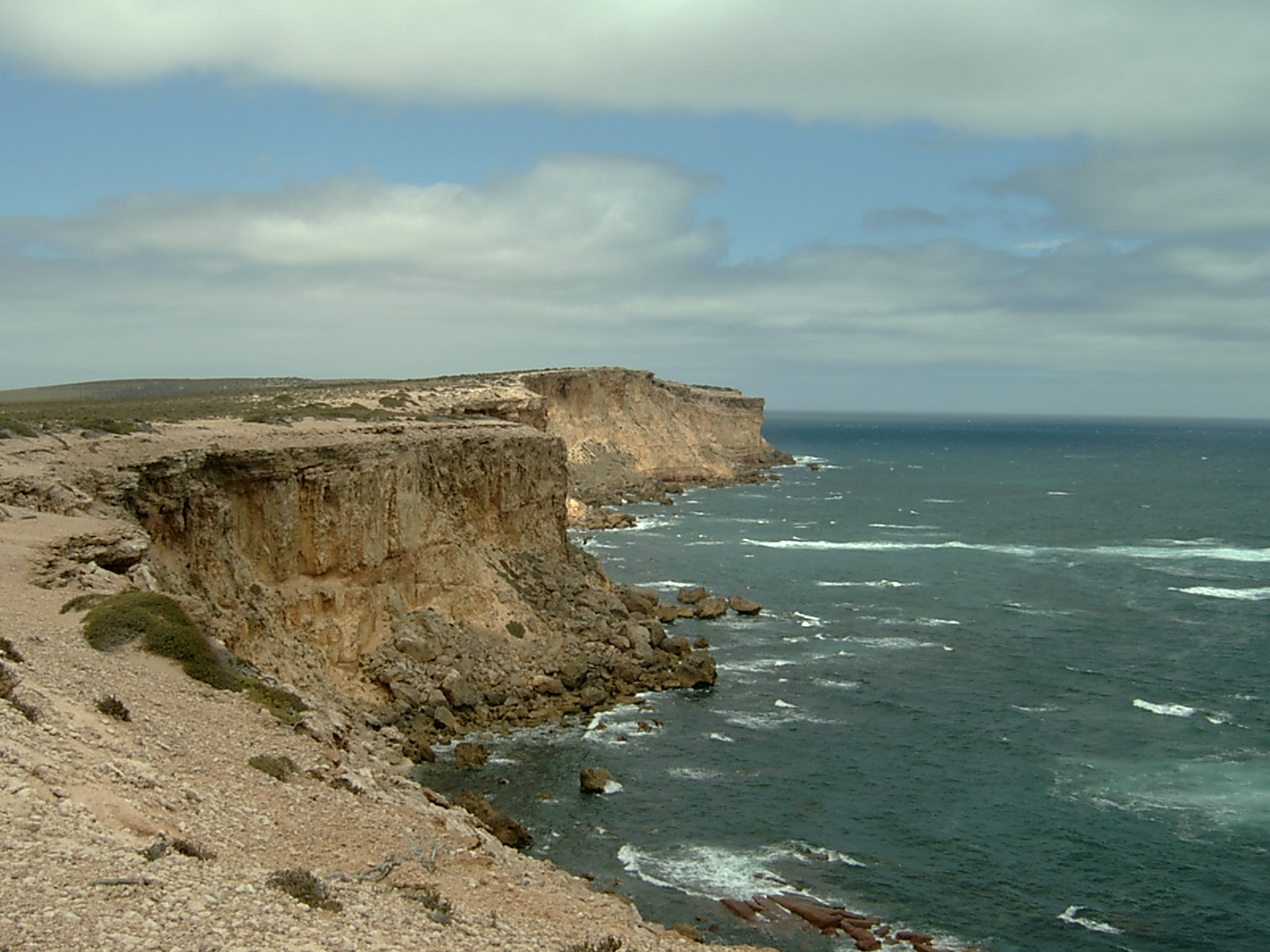 January 2007.